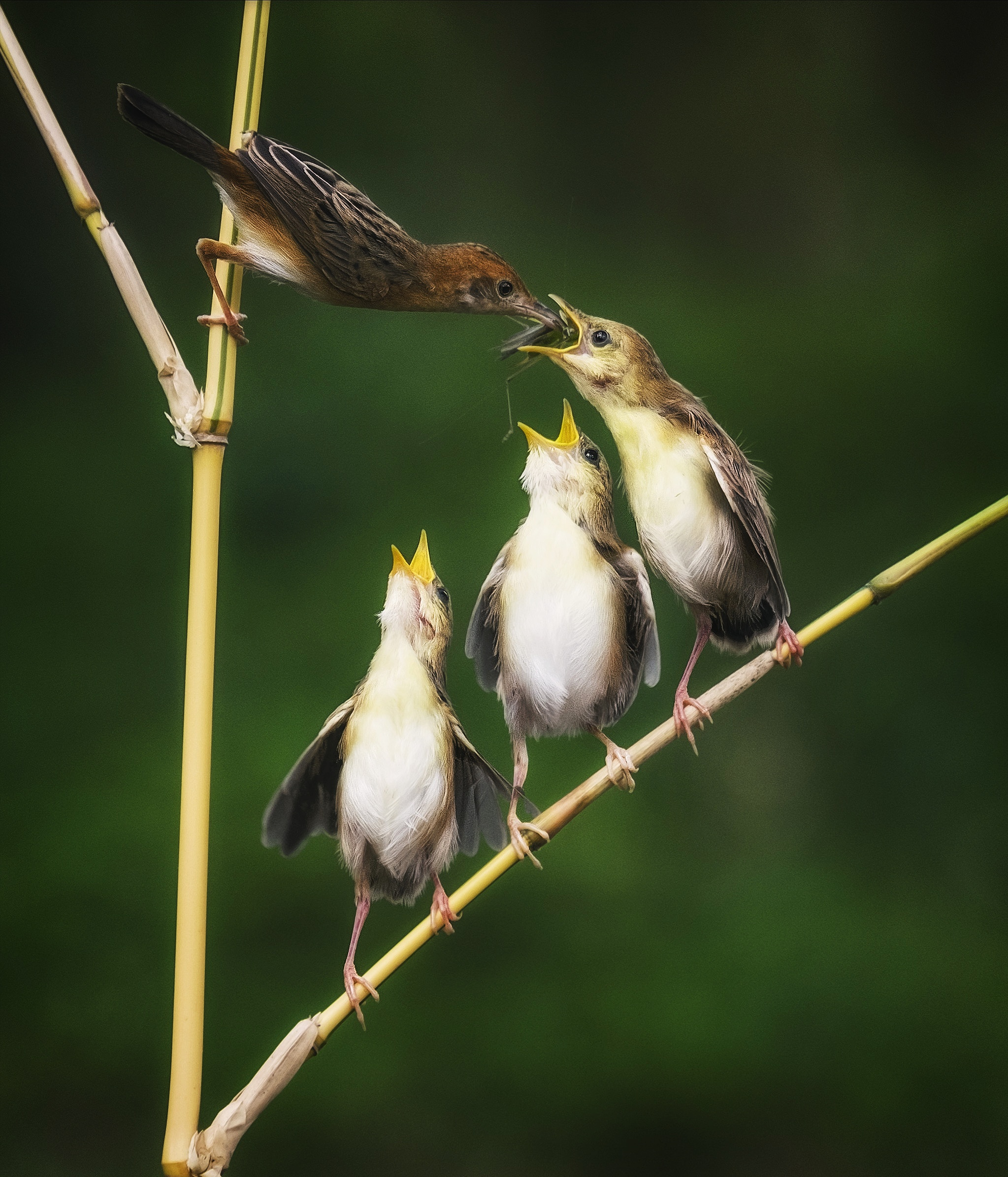 Zitting Cisticola Cisticola juncidis malaya - or, according to this discussion, golden-headed cisticola (Cisticola exilis) - feeding its chicks. These birds are members of the genus Cisticola, family of Cisticolidae, and order of Passeriformes.